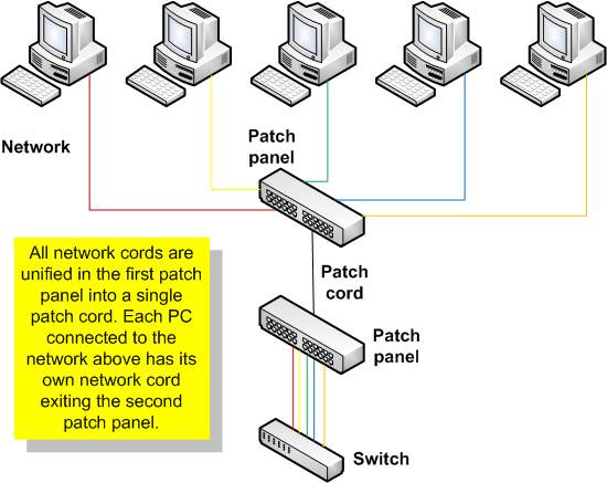 Diagram of a PC network with a patch panel.